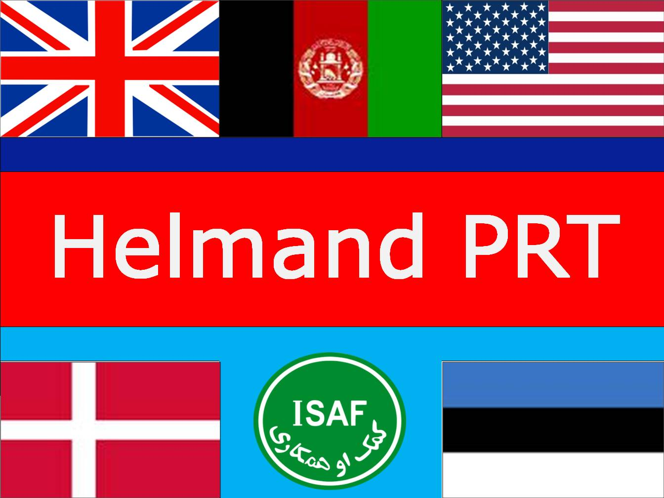 Helmand PRT Logo